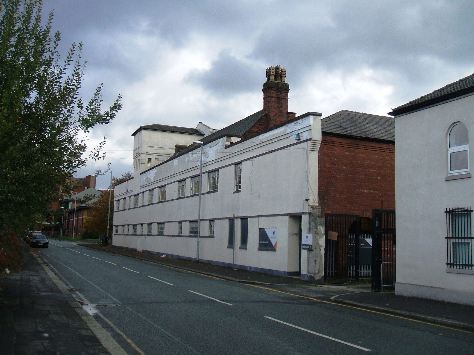 McDougall Centre